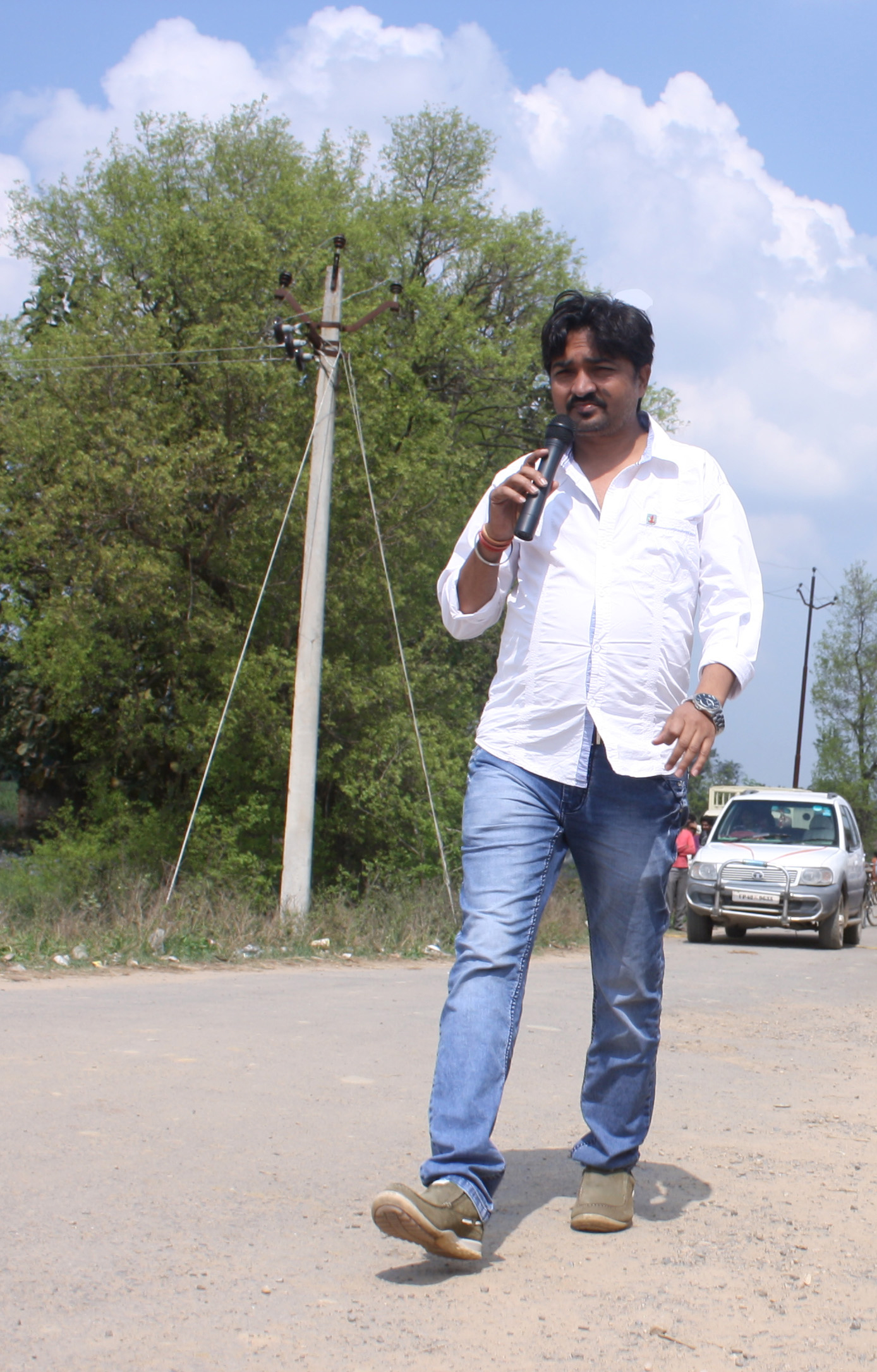 Rajkumar R. Pandey at 'Dulaara' Bhojpuri Film Shooting.